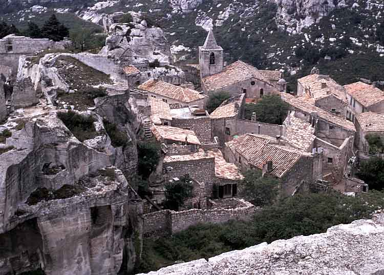 Les Baux de Provence. Photographed by Adrian Pingstone. Prepared for Wikipedia by Adrian Pingstone in January 2004, and released to the public domain.